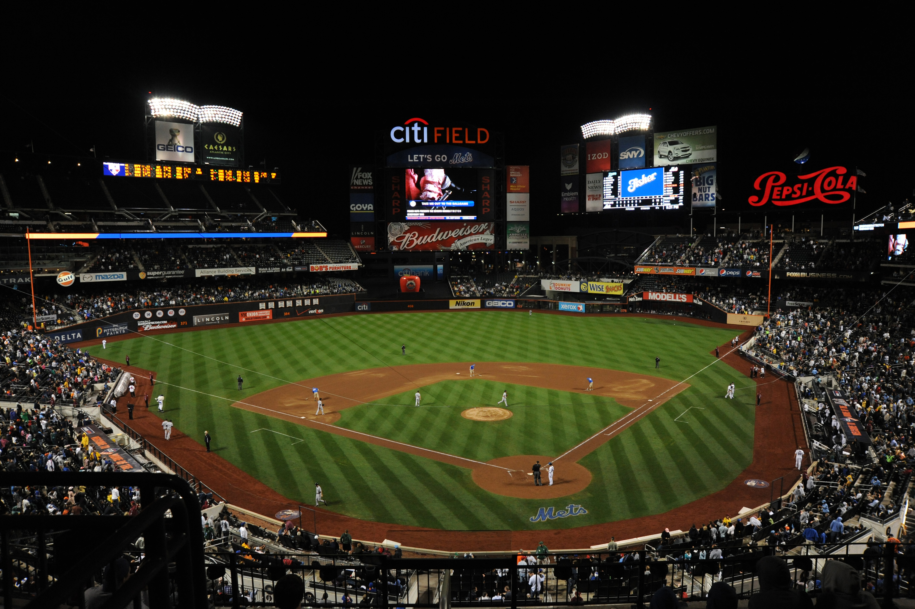 The New York Mets and the Florida Marlins battle it out for a win, Aug. 24, 2010. That night Coast Guard Chief Petty Officer Tom Morrison, a gunner's mate assigned to Coast Guard Sector New Orleans, watches as his son Logan Morrison plays left fielder, for the Marlins. (U.S. Coast Guard photo by Petty Officer 3rd Class Casey J. Ranel)